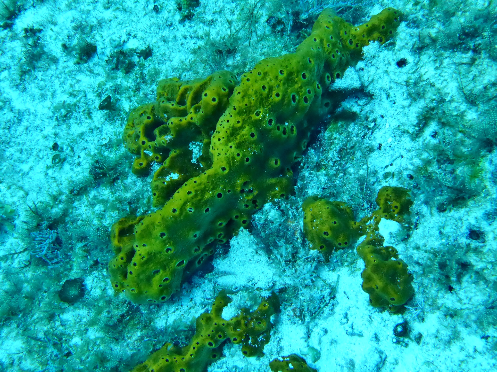 Brown Encrusting Octopus Sponge (Ectyoplasia ferox). Species of marine invertebrate.